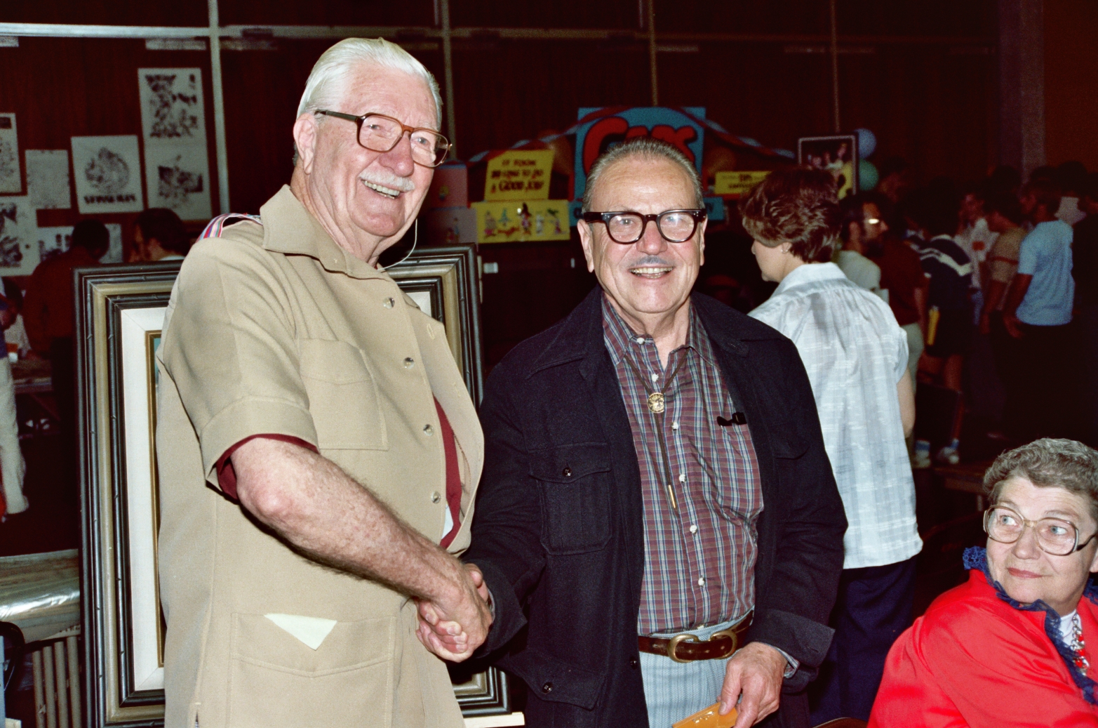 Legendary cartoonists Carl Barks (1901-2000) and Burne Hogarth (1911-1996) shake hands while Garé Barks looks on, at the 1982 San Diego Comic Con (today called Comic-Con International).